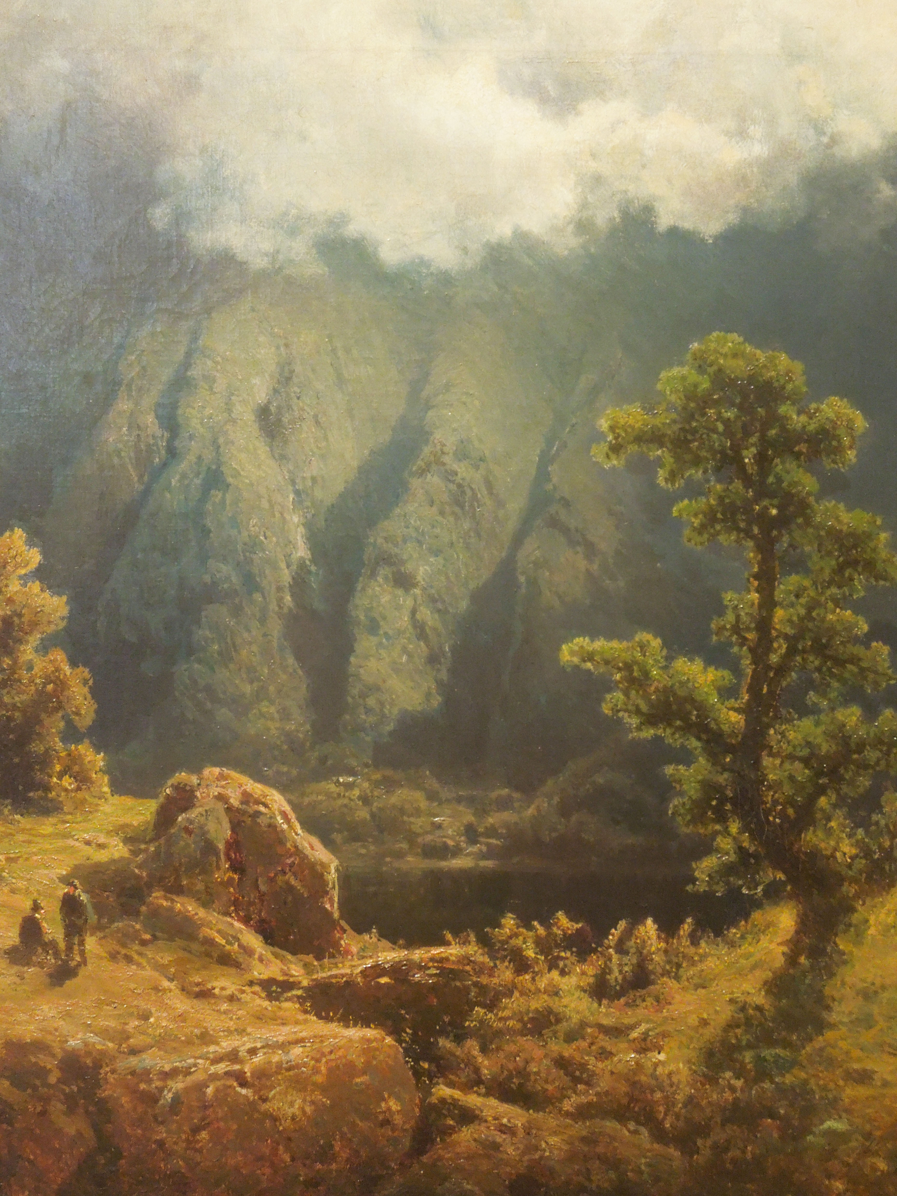 Charlotta Piepenhagenová - Lake in the Mountains, 1870s